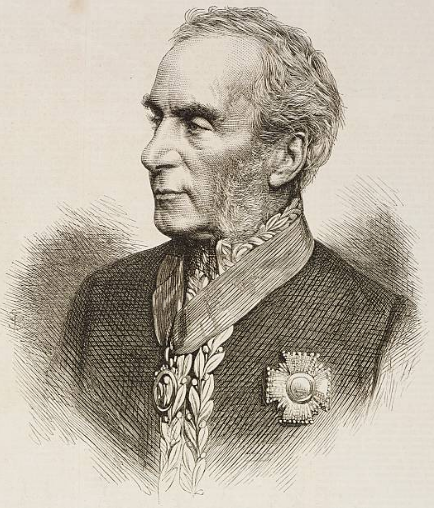 Portrait of Richard Mayne (1796-1868), head of the London Metropolitan Police, illustration from the magazine The Illustrated London News, volume LIV, January 9, 1869